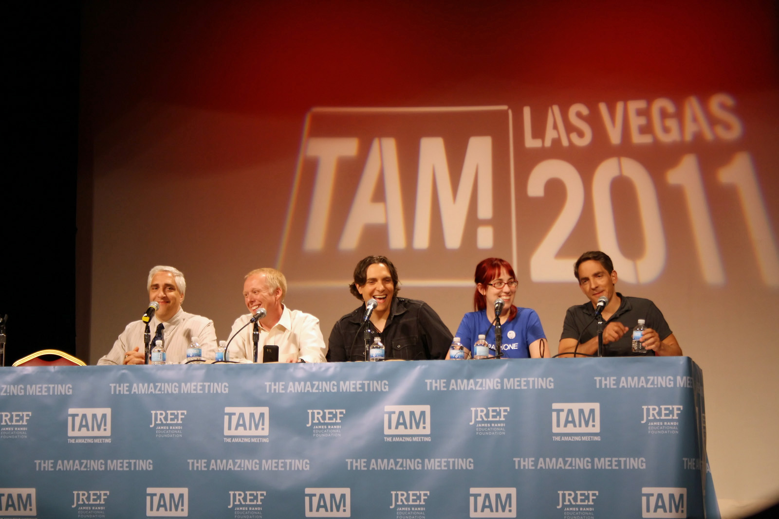 The Skeptics Guide crew at TAM 9 Las Vegas 2011